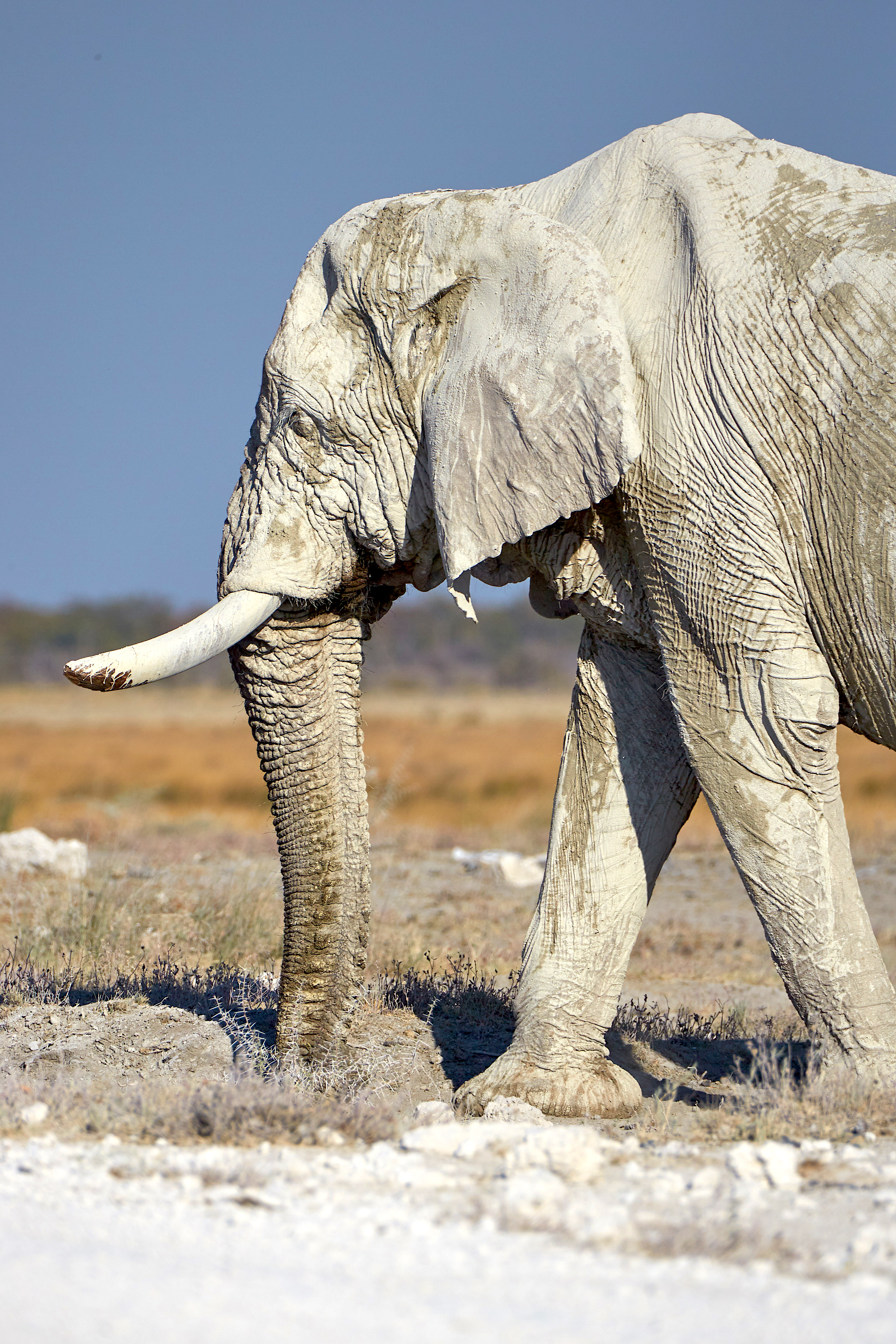 African bush elephant (loxodonta africana) bull displaying the long eyebrows of older elephants and the short tactile hair growing on the trunk (near Namutoni, Etosha National Park, Namibia)